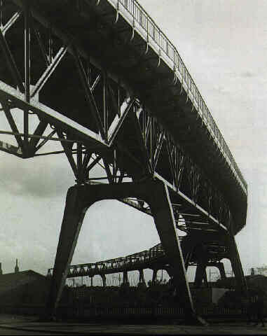 Unknown